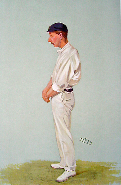 Caricature of Johnny Tyldesley (1873-1930), England cricketer. Caption read "Forty-six centuries in eleven years".